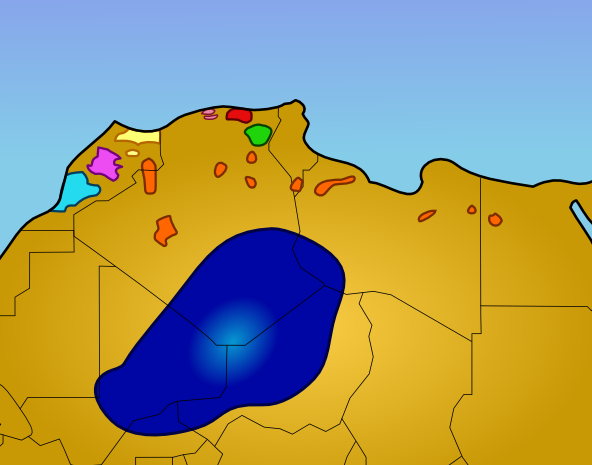 Distributions of Berbers in western North Africa. Legend Dark Blue : Tuaregs Purple : Zaians (Middle-Atlas mountains Berbers, also called Amazighs in a specifically sense or Brabers) Yellow : Riffis Light purple : Chenwis Red : Kabyles Green : Chawis Orange : Saharian Berbers (Zenagas, Mozabites, Siwis) Light Blue : Chleuhs Credits Created by Ayadho. Based on an older version uploaded by Agurzil. I didn't keep the legend within to let it be reusable in every language.